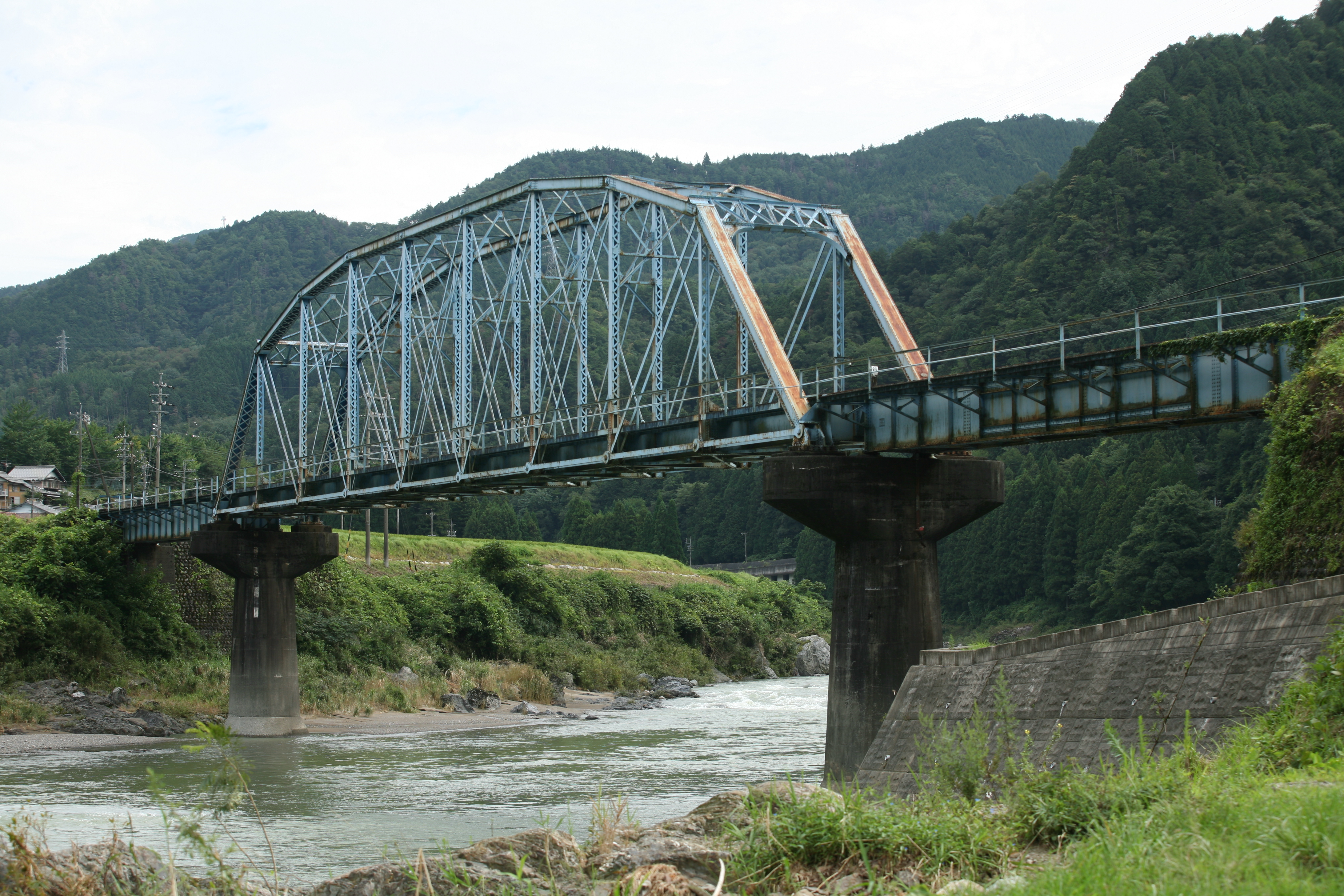 The 5th Nagaragawa river bridge,Nagaragawa Ry.manufactured by American Bridge,1911.